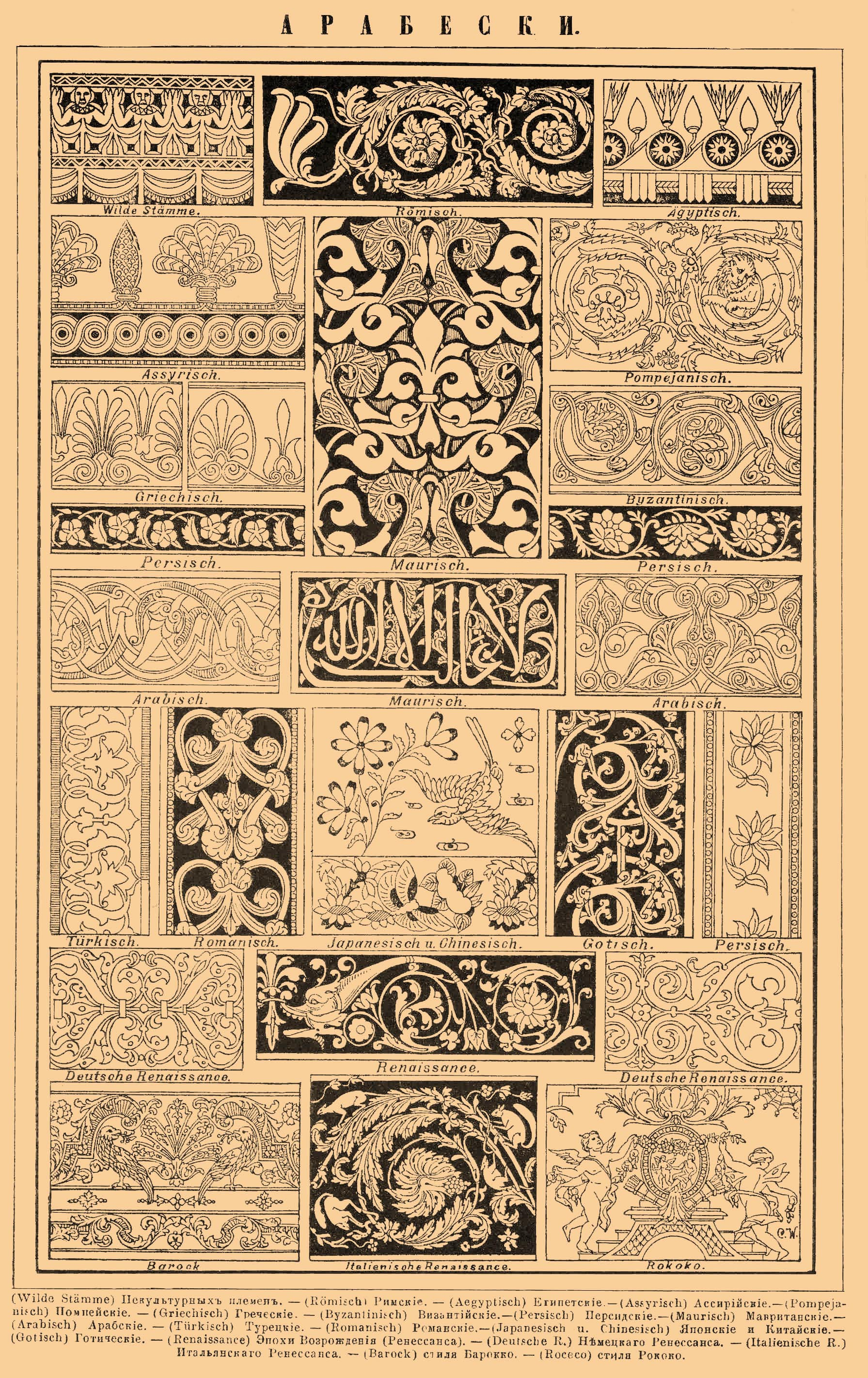 Illustration from Brockhaus and Efron Encyclopedic Dictionary (1890—1907)